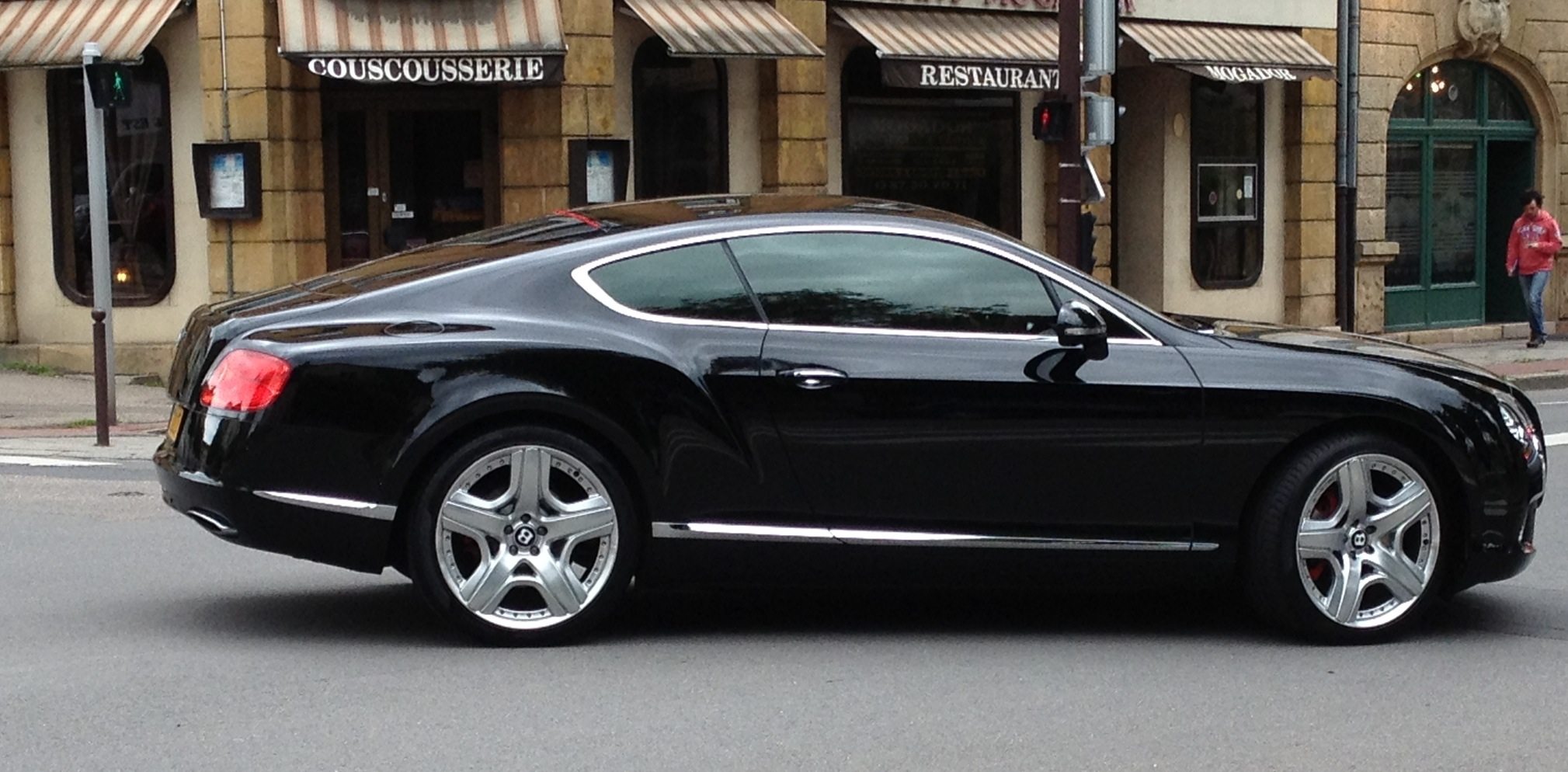 Bentley Continental GT W12